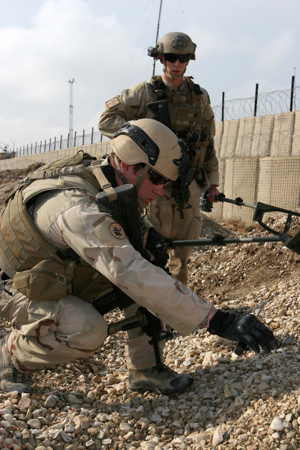 MAIMANAH, Afghanistan (Feb. 15, 2011) Sailors assigned to Explosive Ordnance Group (EOD) 3 simulate how to identify and find possible improvised explosive devices (IEDs) during a training exercise at Camp Griffin. Sailors assigned to the International Security Assistance Force (ISAF) provide support to Afghanistan in creating a functioning government and administration structure, while preserving Afghan traditions and culture. (U.S. Navy photo by Mass Communication Specialist 2nd Class Jason Johnston/Released)